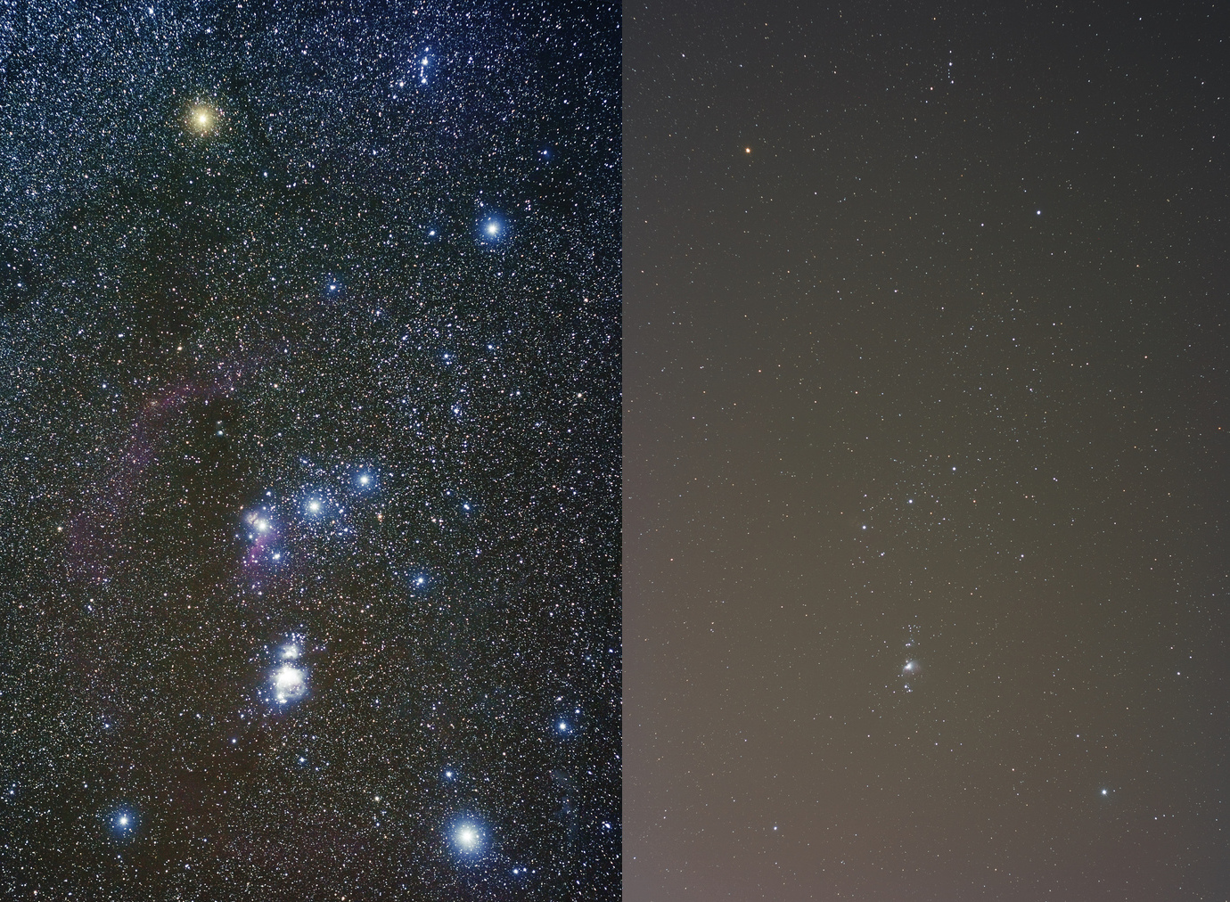 The constellation Orion, imaged at left from dark skies, and at right from the teeming metropolis of Orem, UT comprising about half a million people.